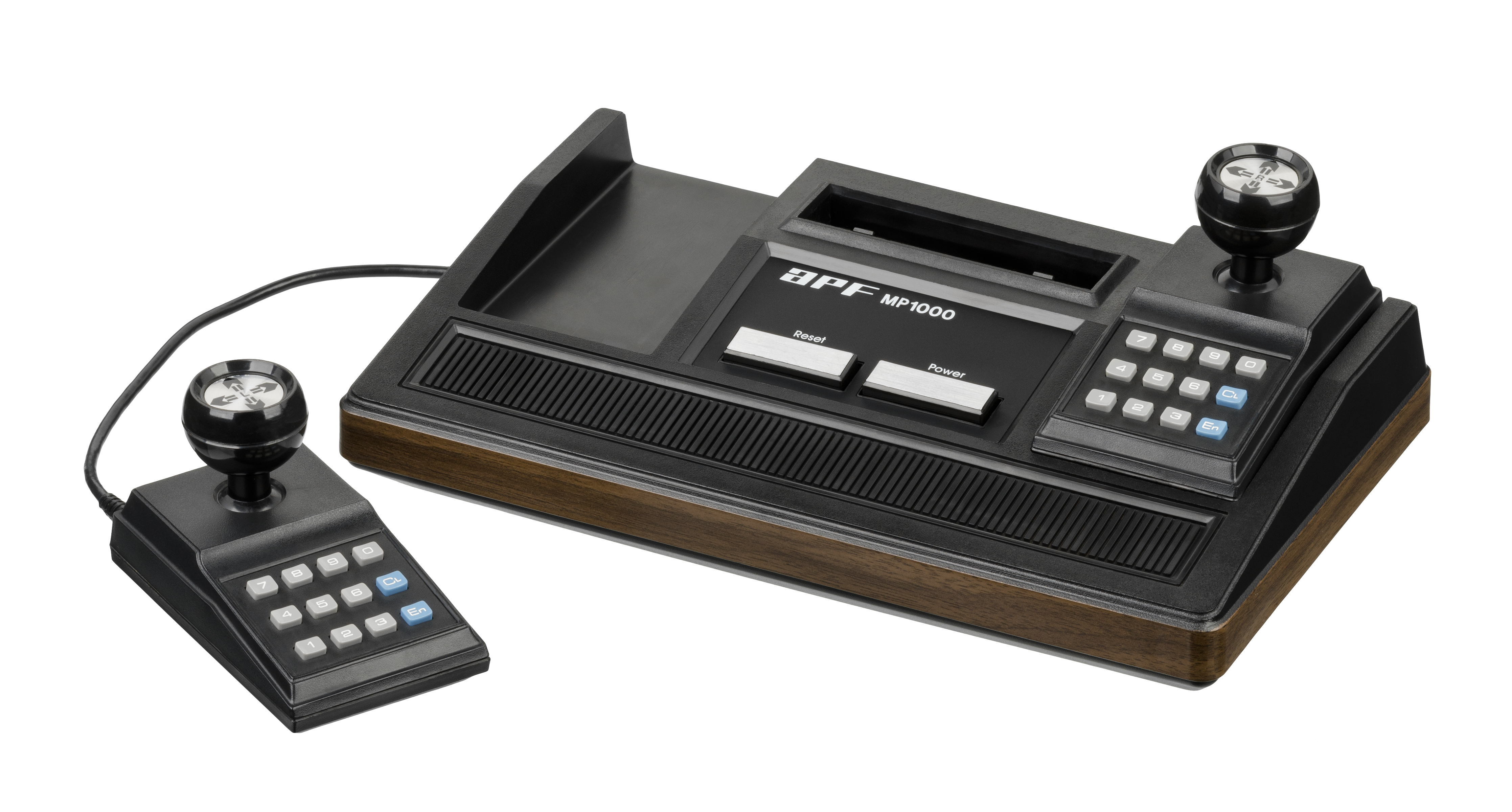 The APF MP1000 (some are also labeled the M1000), a video game console released by APF Electronics in 1978. A follow up to APF's line of Pong consoles, the MP1000 was a true microprocessor-based system that was powered by a Motorola 6800. The system wasn't commercially successful, releasing alongside a glut of other consoles, and APF Electronics filed for bankruptcy a few years later.